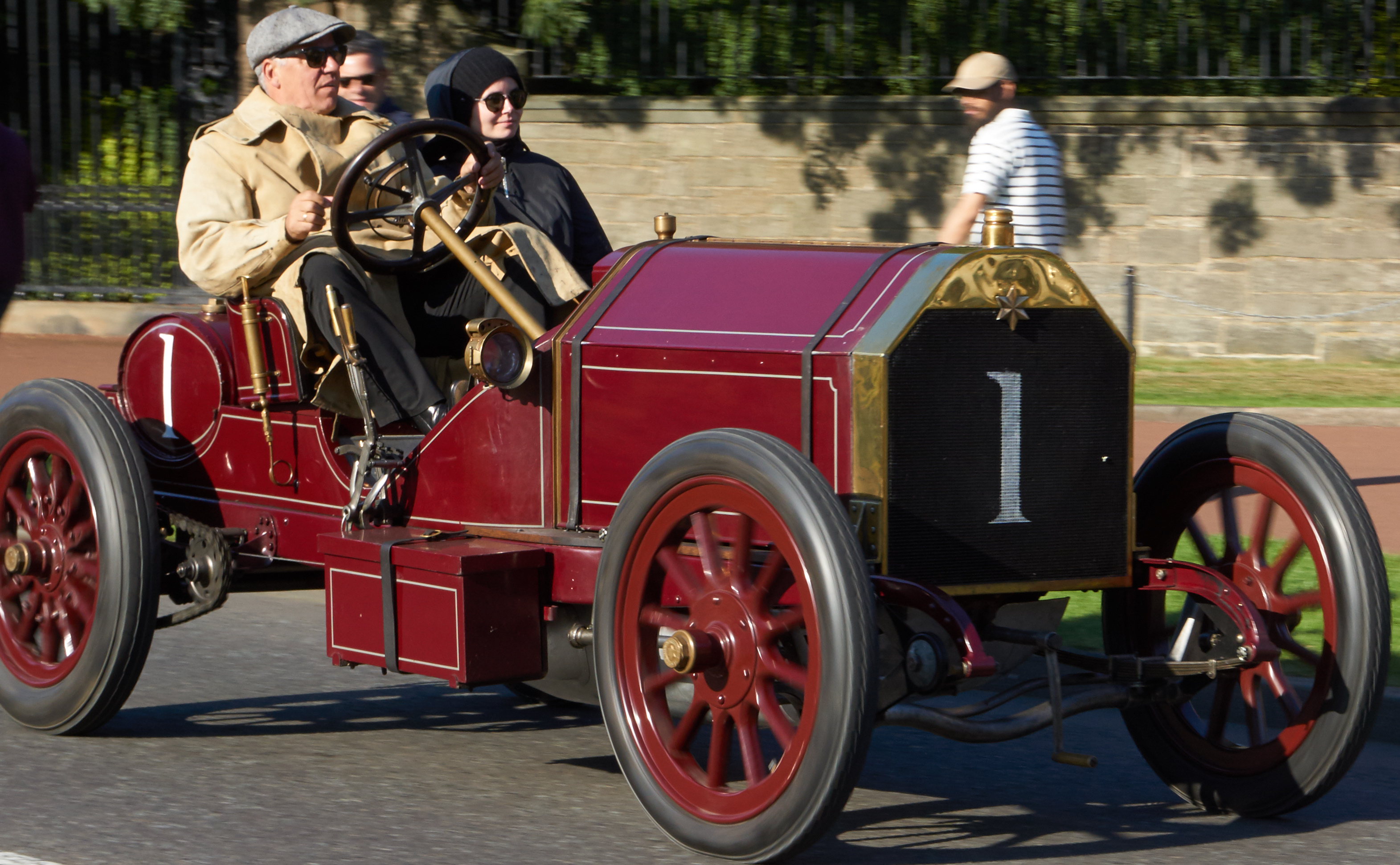 1905 Star Gordon Bennett entrant Concours d'élégance Palace of Holyroodhouse Edinburgh